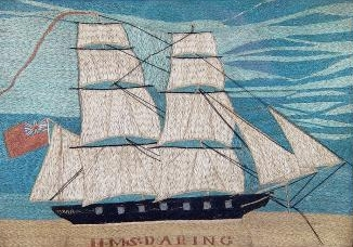 Created by an anonymous Royal Navy sailor in the early 19th century - copyright has certainly expired